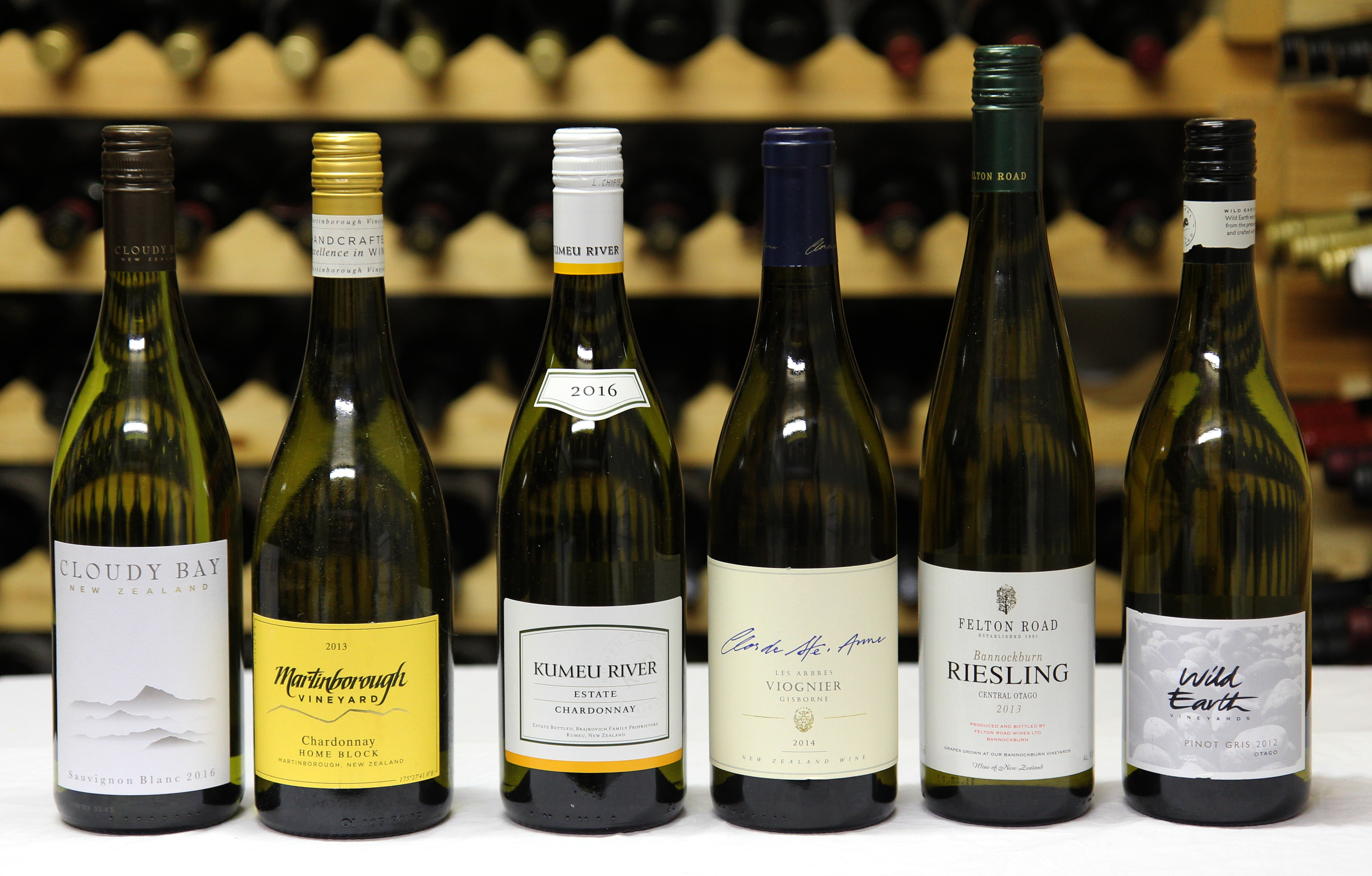 An attempt at a representative selection of well reviewed New Zealand white wines in six bottles. Left to right: The Cloudy Bay from Marlborough brought New Zealand's Sauvignon Blanc to international attention in the 1980s; Chardonnays from Martinborough (Wairarapa) and Kumeu (Auckland) regions; a single vineyard Viognier from Millton Estate, in Gisborne; Riesling from Central Otago; Pinot Gris from Marlborough.